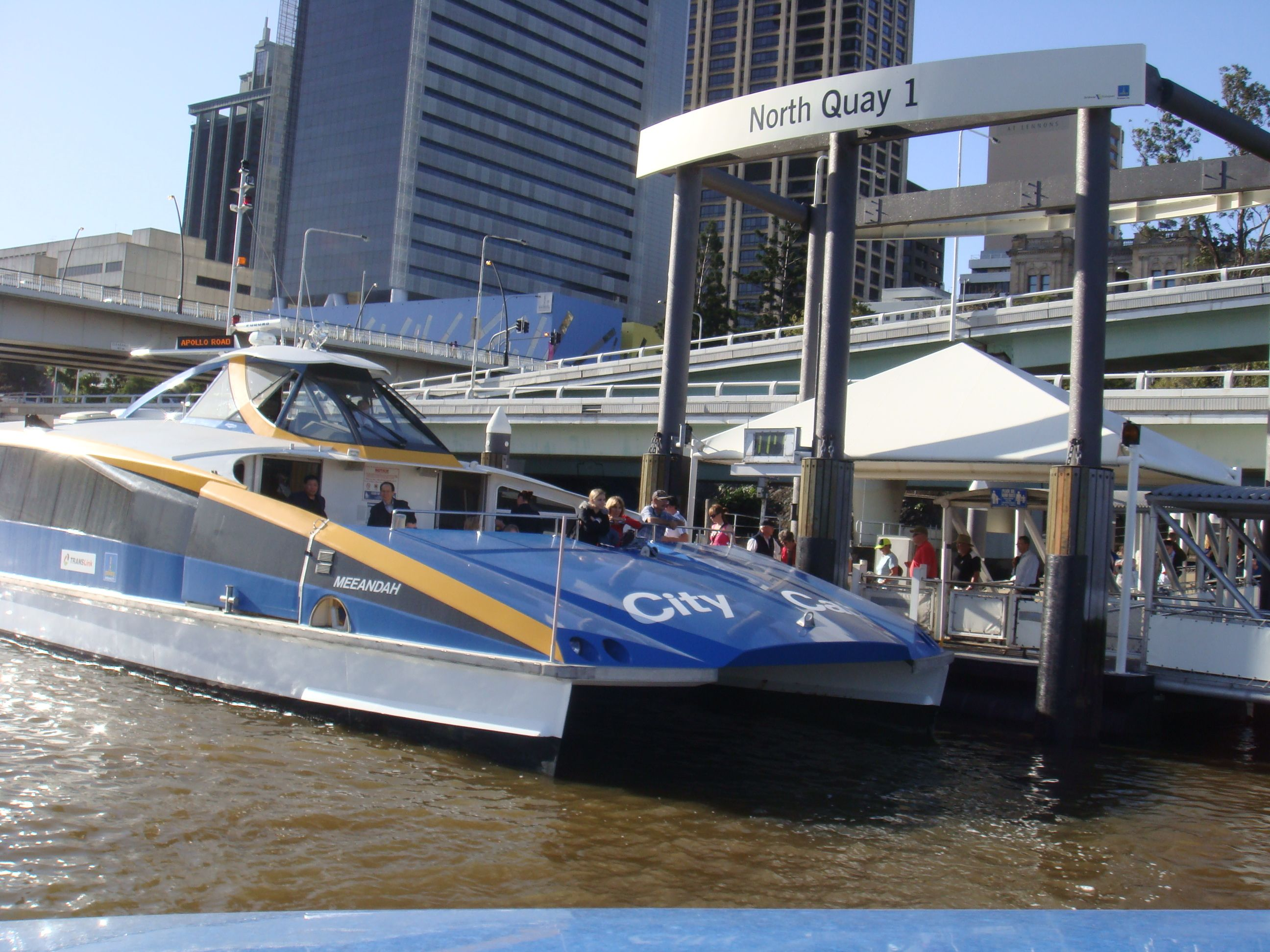 North Quay CityCat Terminal, Brisbane